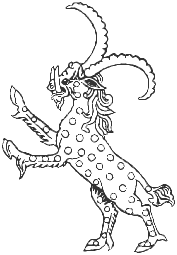 A heraldic yale in the salient (leaping) position